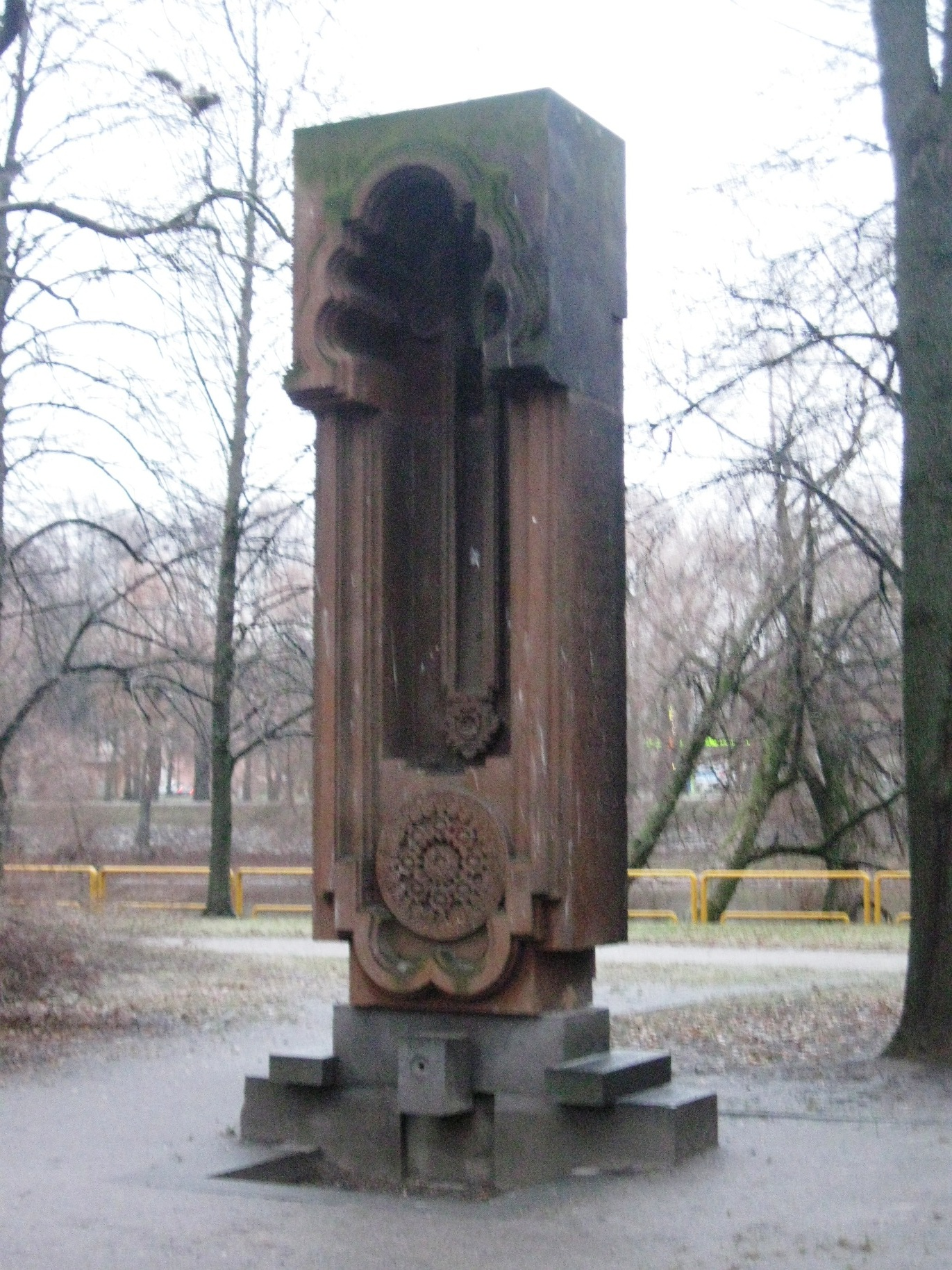 Armenia - Estonia monument in Tartu